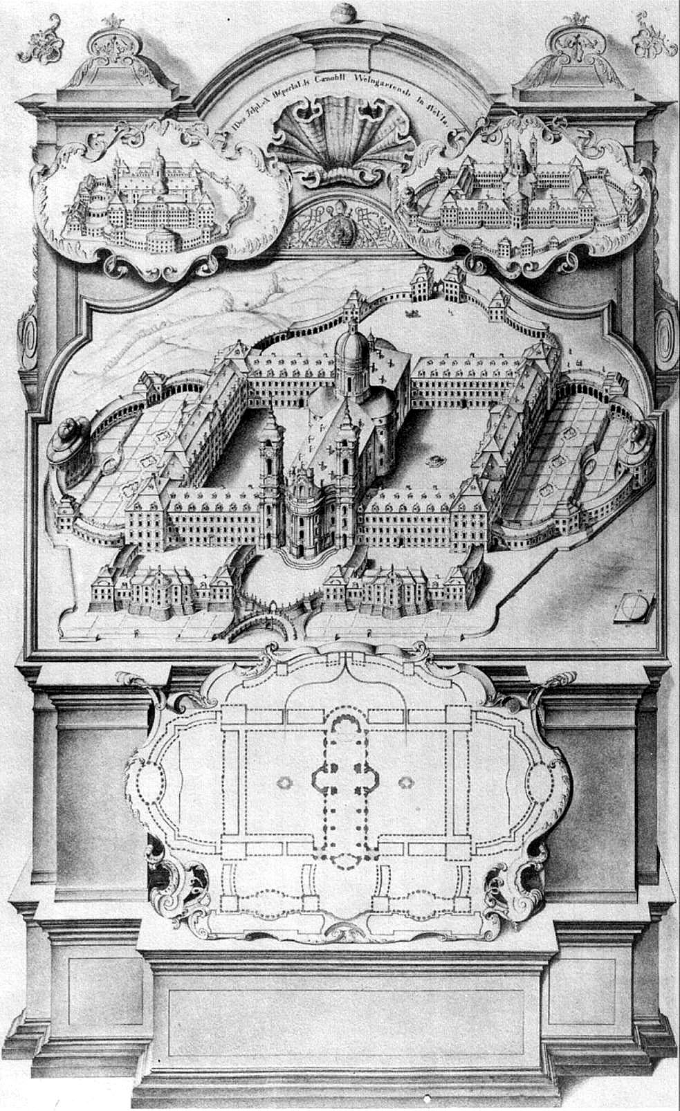 Baroque ideal plan of the Weingarten Abbey, from the 18th century.